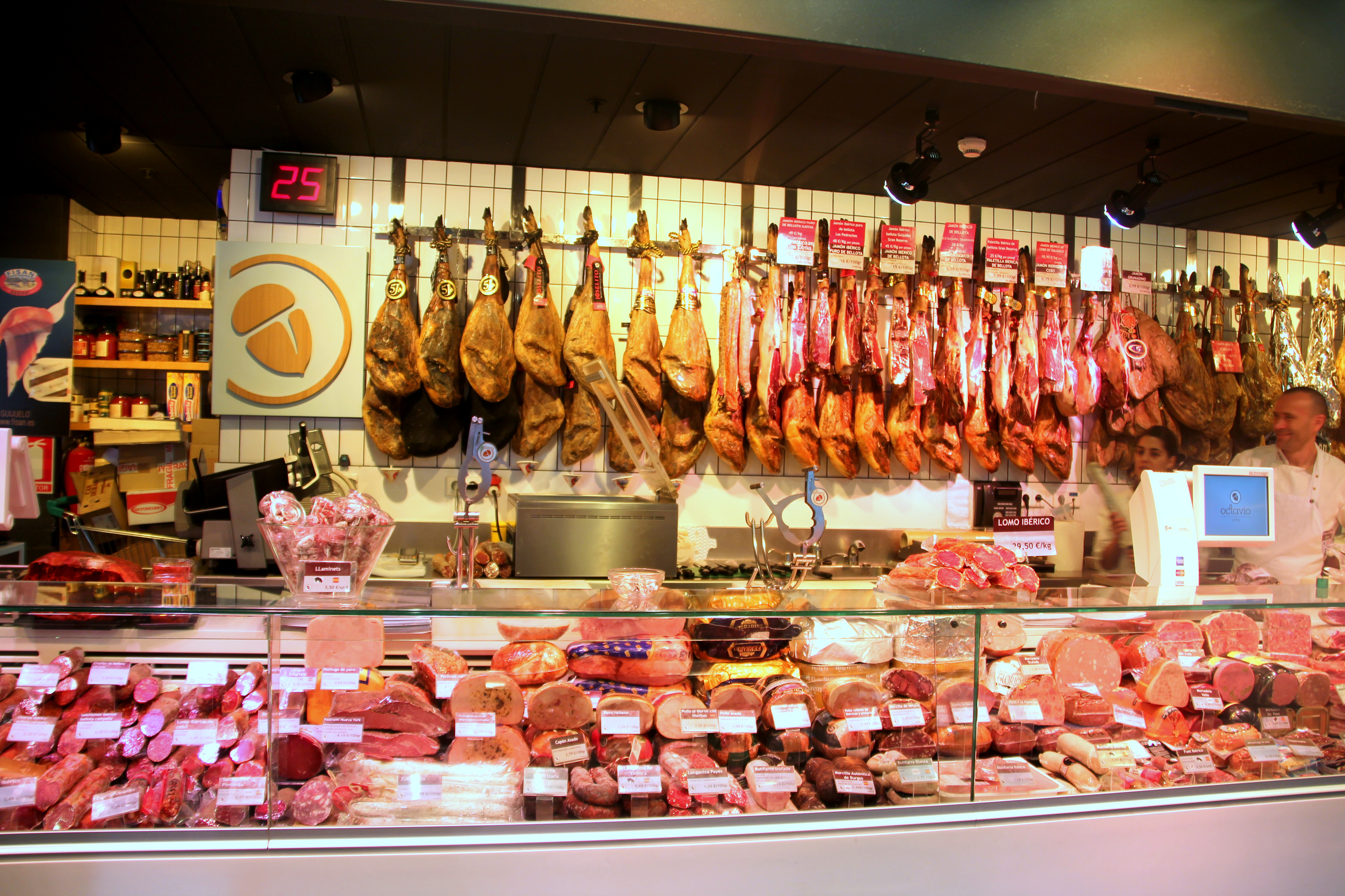 Various meats displayed at a delicatessen at the Mercado de San Anton in the Chueca district of Madrid, Spain